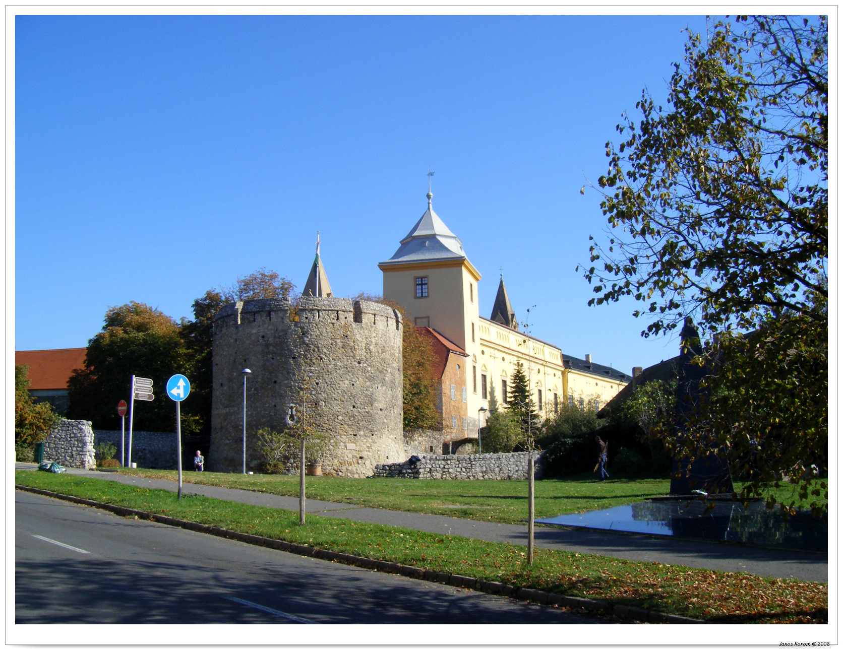 Barbakan and monument